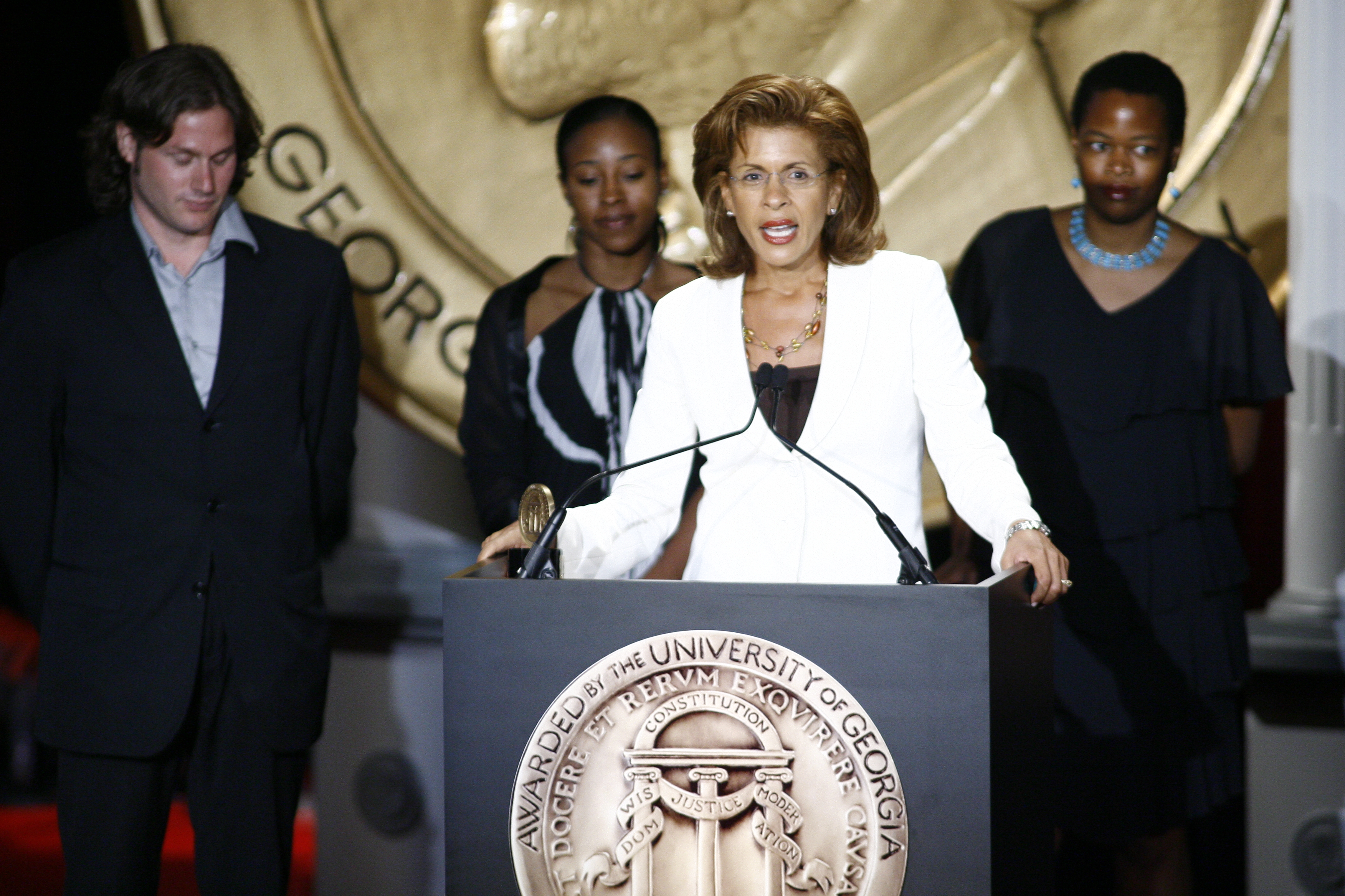 Hoda Kotb, Monica Groves, and Shayla Harris accepting the award for "Dateline NBC: The Education of Ms. Groves" 66th Annual Peabody Awards Luncheon Waldorf=Astoria Hotel New York, NY USA June 4, 2007